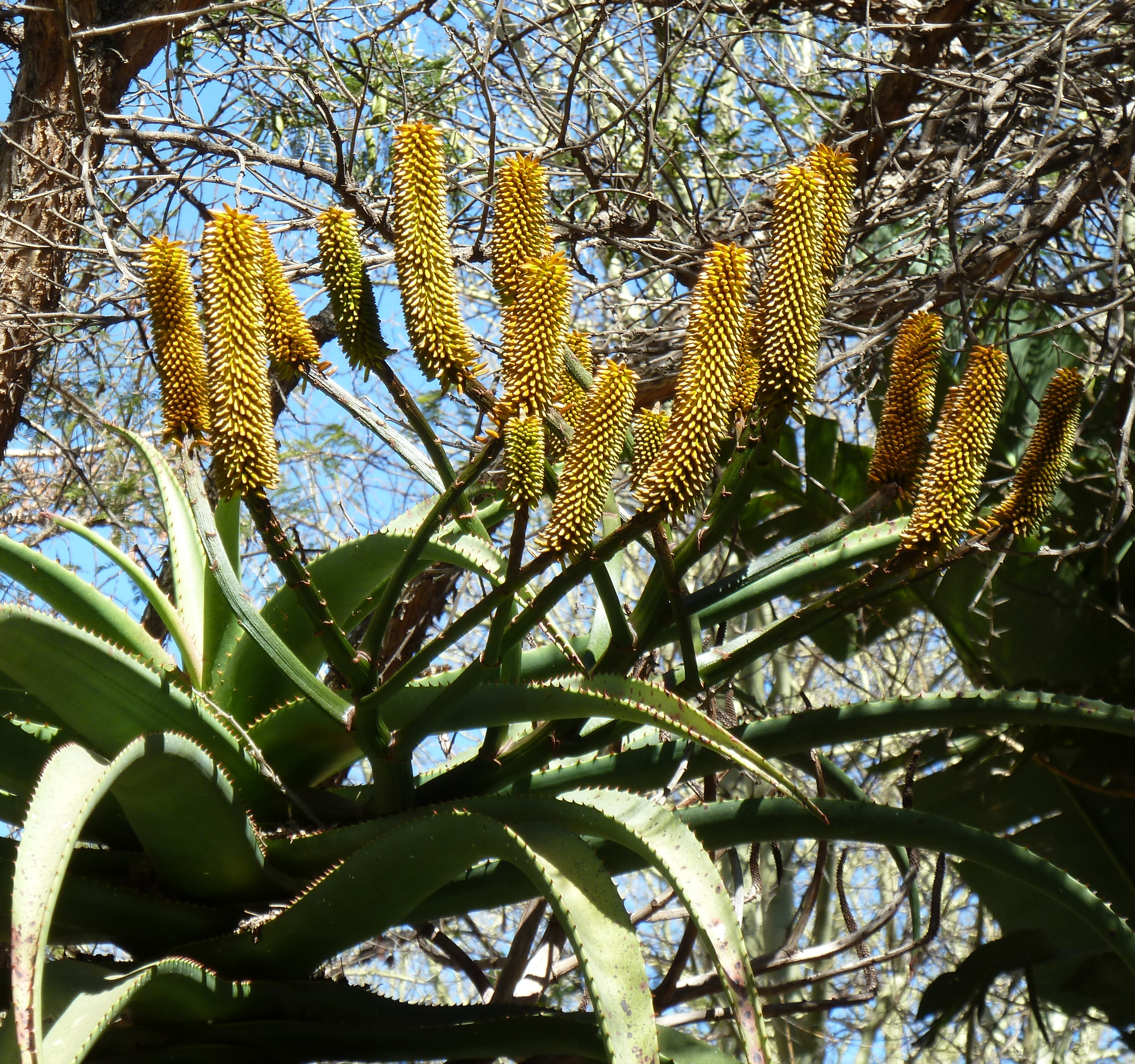 Early, greenish inflorescence of a Bottlebrush aloe, Pretoria